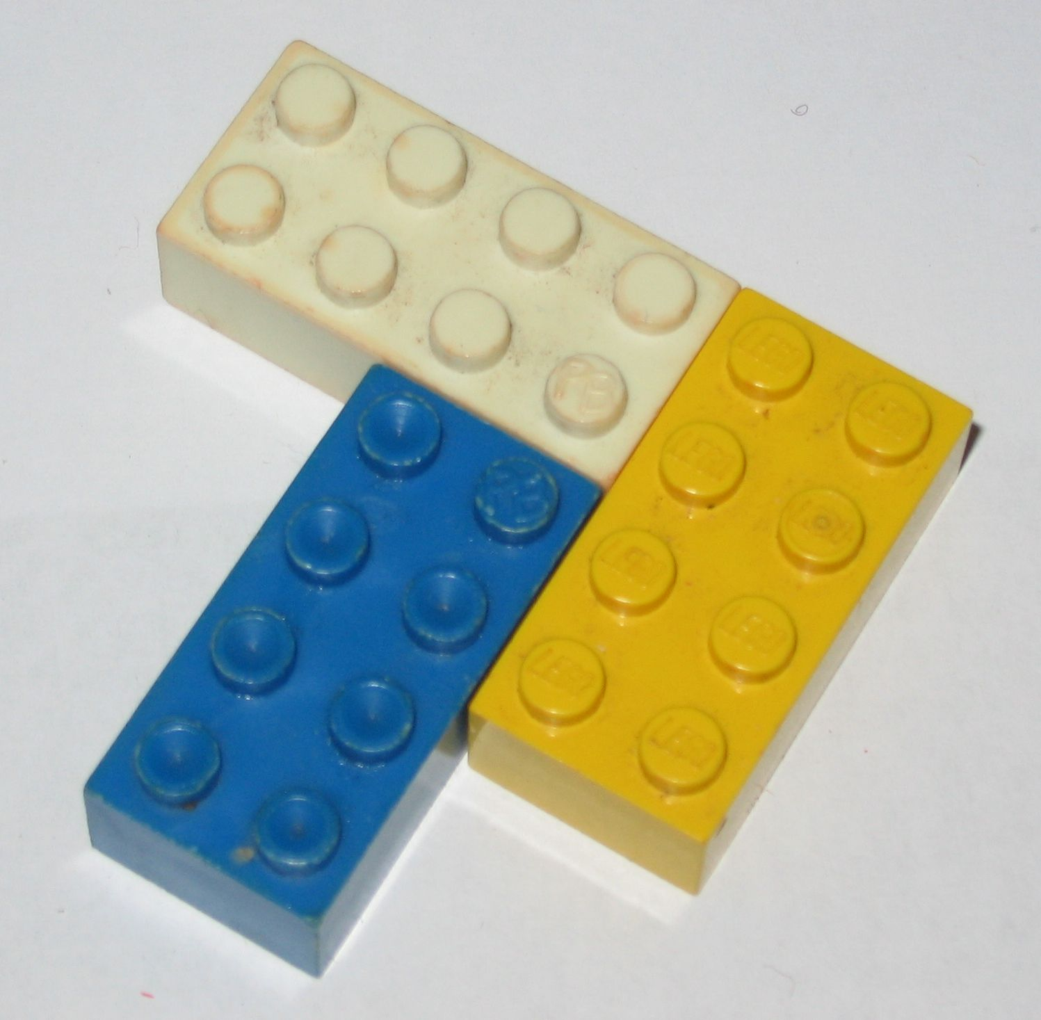 Comparison between PEBE and LEGO bricks. The blue and the white 2x4 brick emanate from different series.